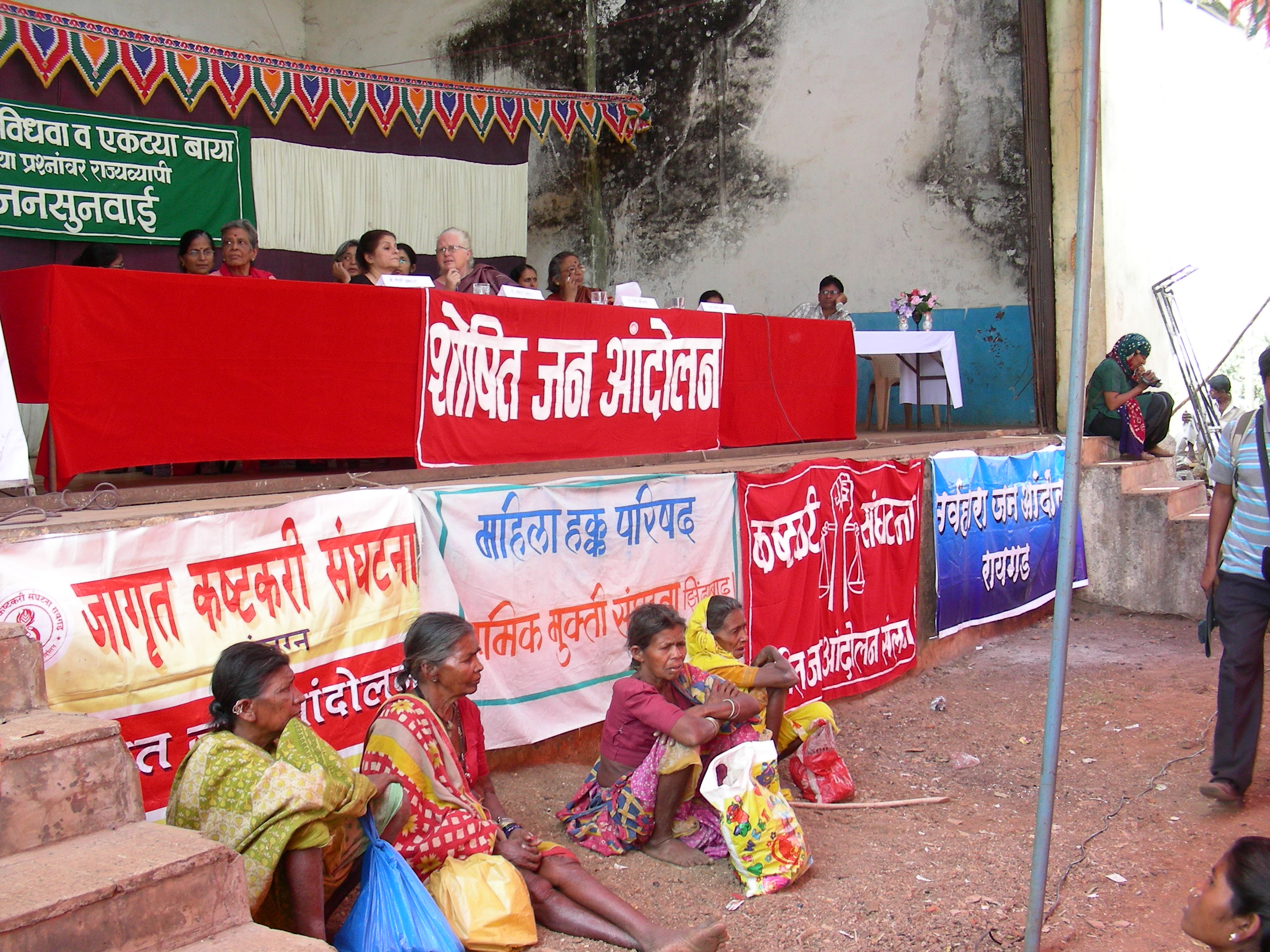 Tribal widow and Single Woman protesting for their rights in Jawahar Maharashtra India. The Event was organised in March 2008 by Shohit Jan Andolan, Woman right council, Kashtkari Sangathna, Jagrit Kashtkai Sangathna.